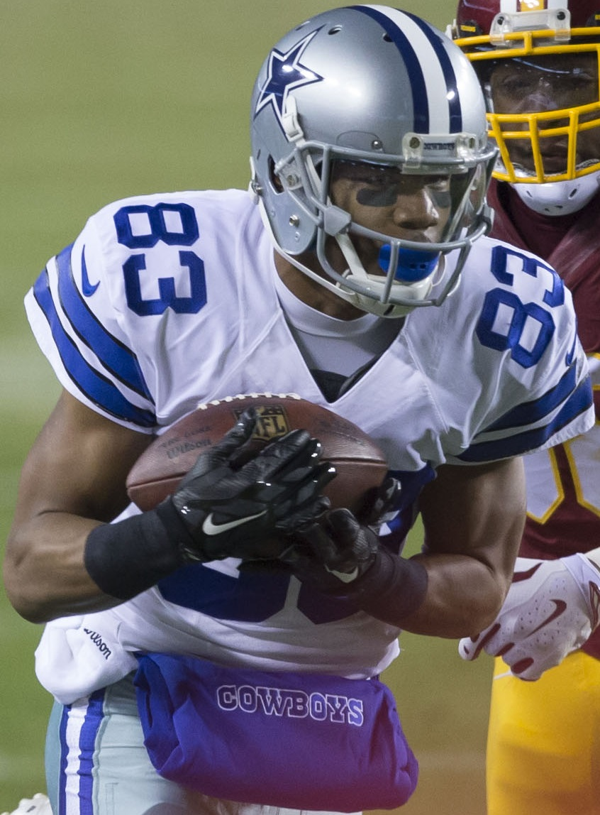 Cowboys at Redskins 12/7/15